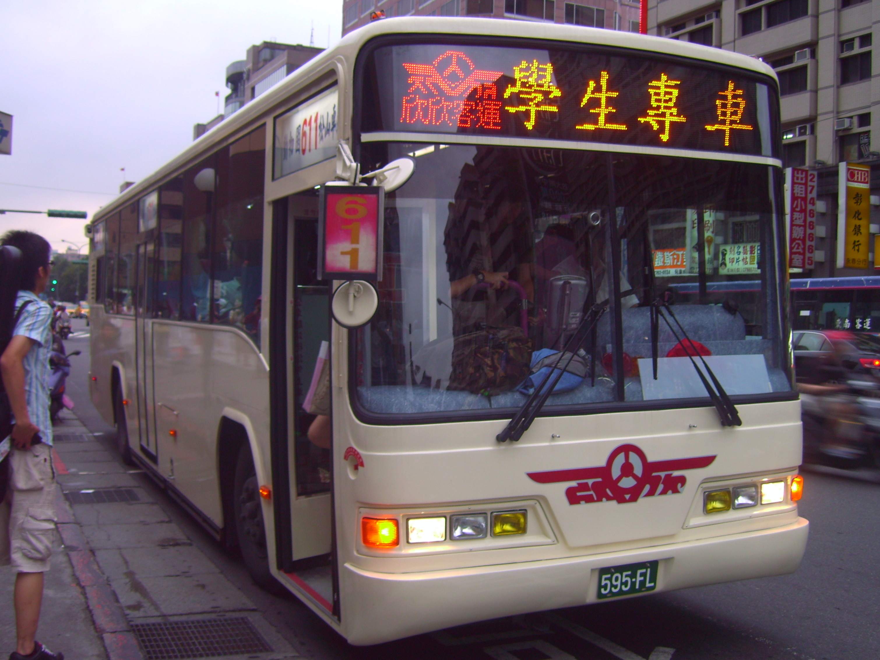 Shin-Shin Bus Company, Ltd. purchased Isuzu LT134P buses at May 2007, but this bus painted with ceramic color, not pink color that people often see.